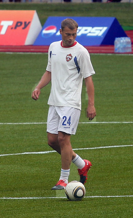 Vasily Berezutsky